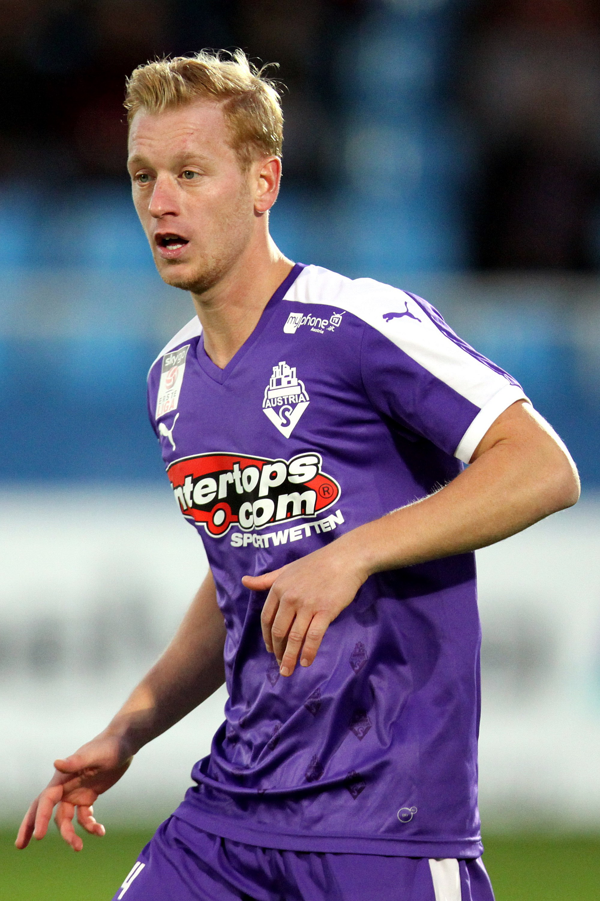 Match of the Erste Liga – SC Wiener Neustadt (blue/white shirts) vs. SV Austria Salzburg (purple shirts and black/white shirts) 2–0 (1–0) on 2015-10-02 in the Stadion in Wiener Neustadt – The photo shows Raphael Reifeltshammer.